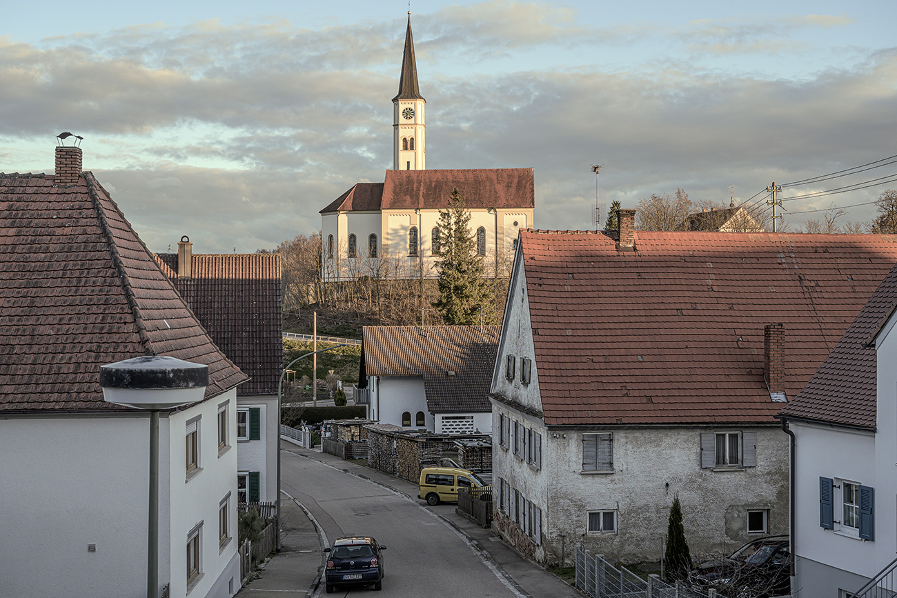 Waldstetten (Kreis Günzburg), village and church